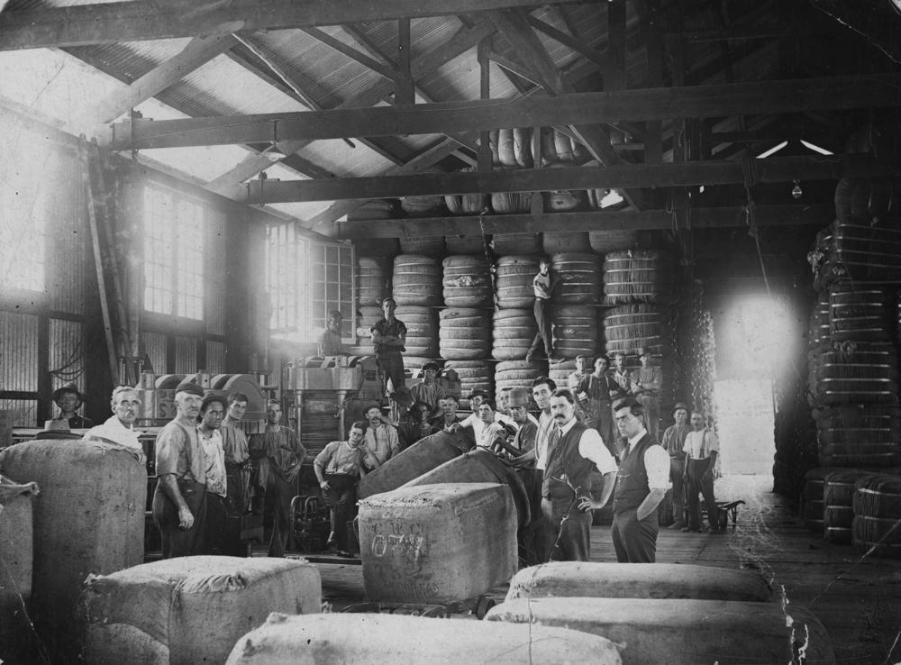 Bales of wool inside No. 1 Dumping Shed, Mercantile Wharf, Brisbane, 1917. Bales of wool inside No. 1 Dumping Shed, Mercantile Wharf, Brisbane. This wool was to be sent to London on the ship Anglo-Chilean. (Description supplied with photograph).